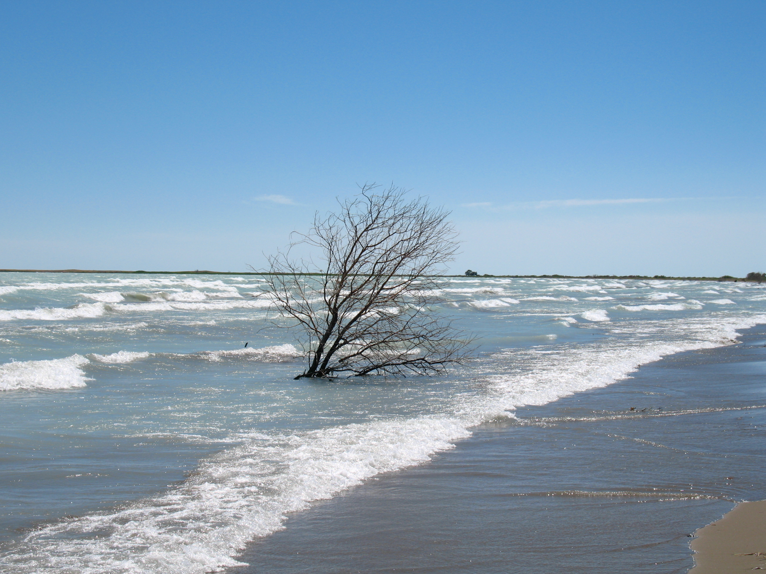 Lake Balkhash, near Priozersk city